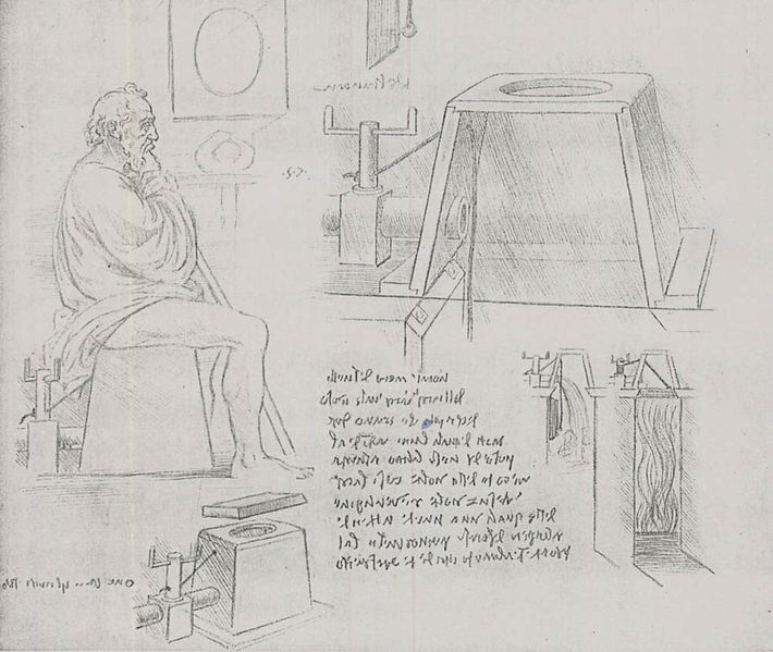 April Fools prank by Martin Gardner. Source Sketch of the first known depiction of a valve flush toilet